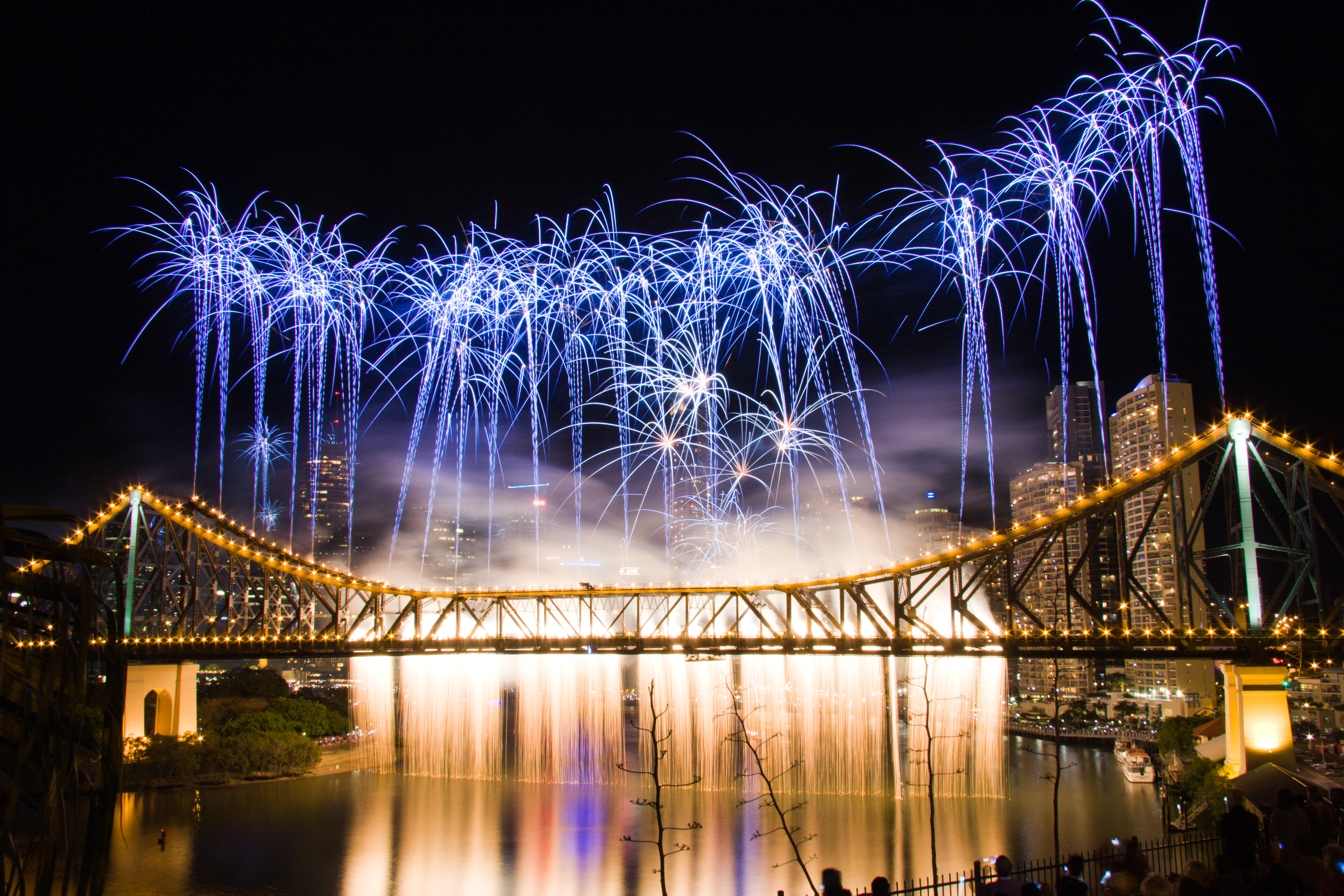 The Story Bridge during Riverfire in Brisbane.